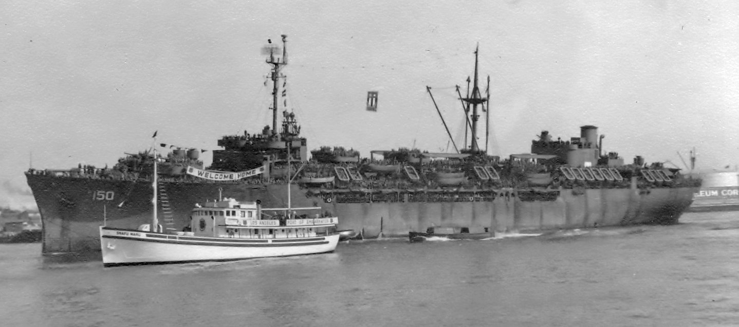 USS General M. M. Patrick (AP-150) probably arriving in the Port of Los Angeles, CA. at the conclusion of a "Magic Carpet" voyage from the Philippines, 28 January 1946. USAFS Ward steams alongside with Welcome Home banners.